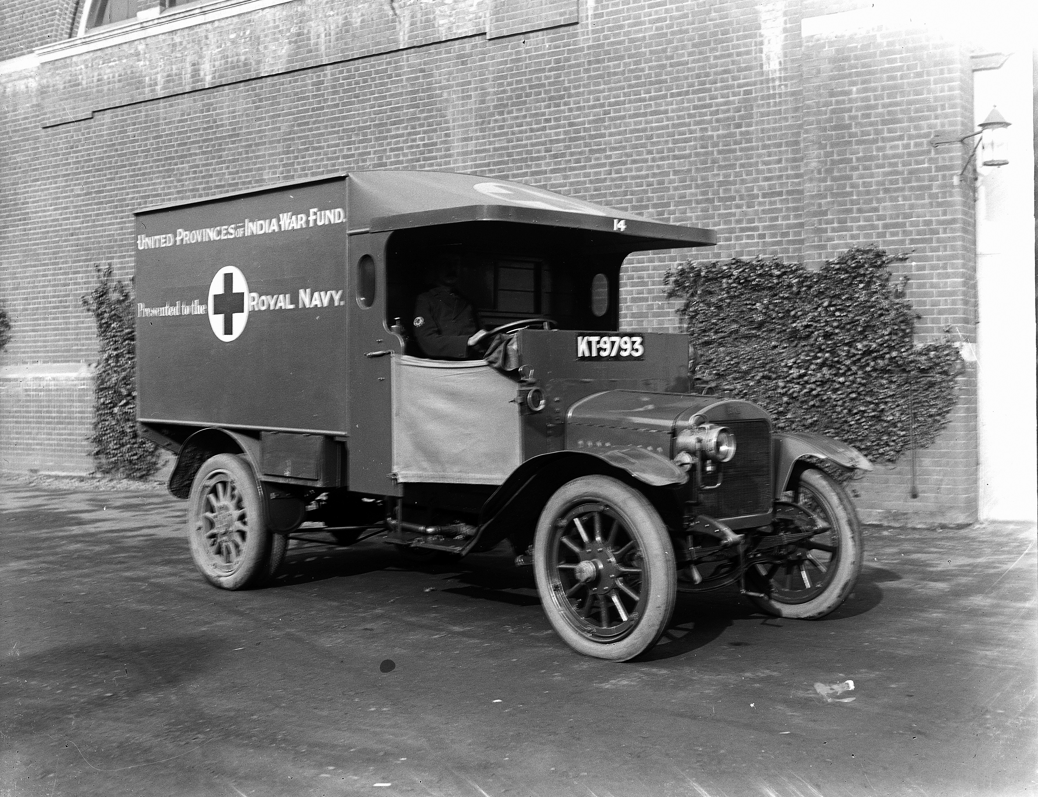 Photograph showing Royal Naval World War I ambulance truck bearing registration number KT9793 and lettering 'United Provinces in India war fund presented to the Royal Navy', c 1919. Iconographic Collections Keywords: Naval and Military; World War One; Ambulances; War; Transport